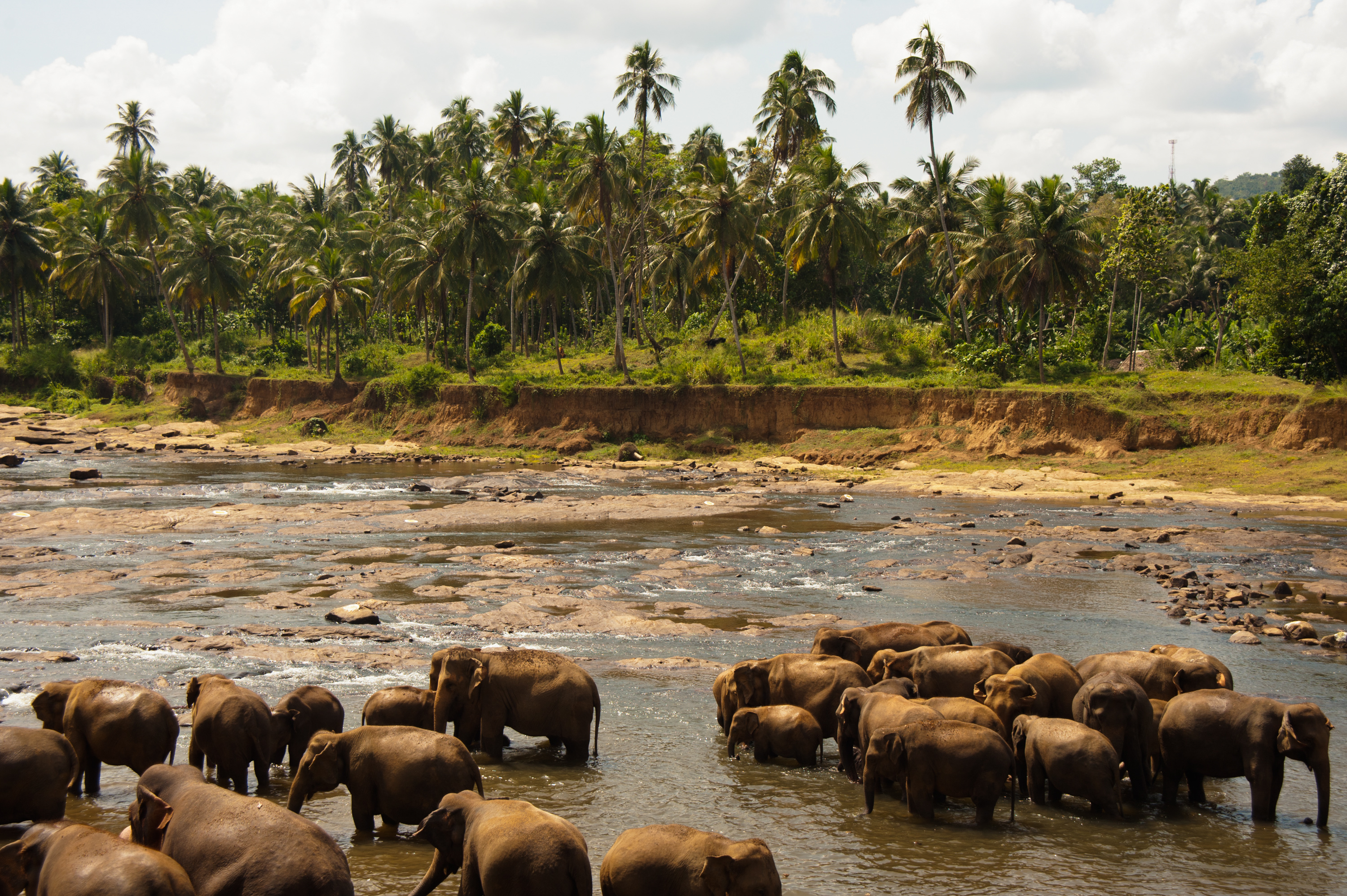 Bathing elephants. Udawalawe National Park. Sri Lanka.